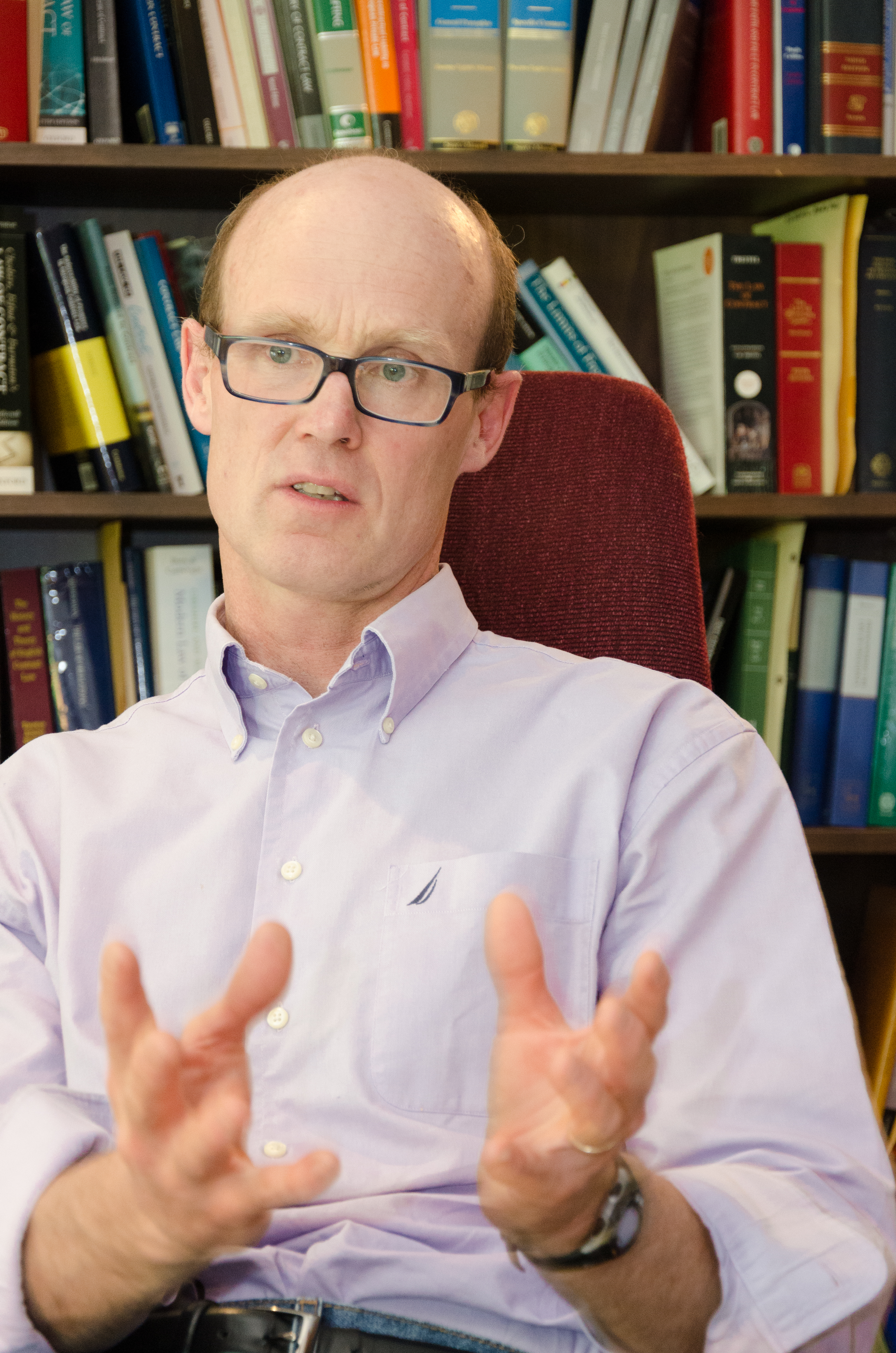 Professor Stephen A. Smith being interviewed in his office, Faculty of Law, McGill University, on 14 May 2012.